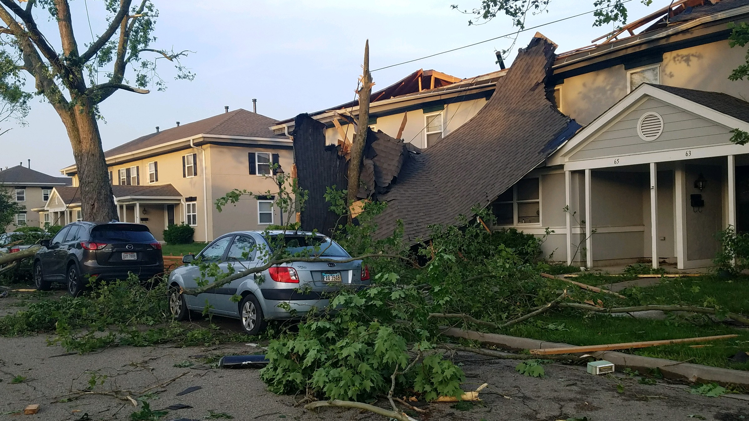 On May 27th, 2019, a strong tornado tracked through the northeast side of Dayton, Ohio, causing significant damage.